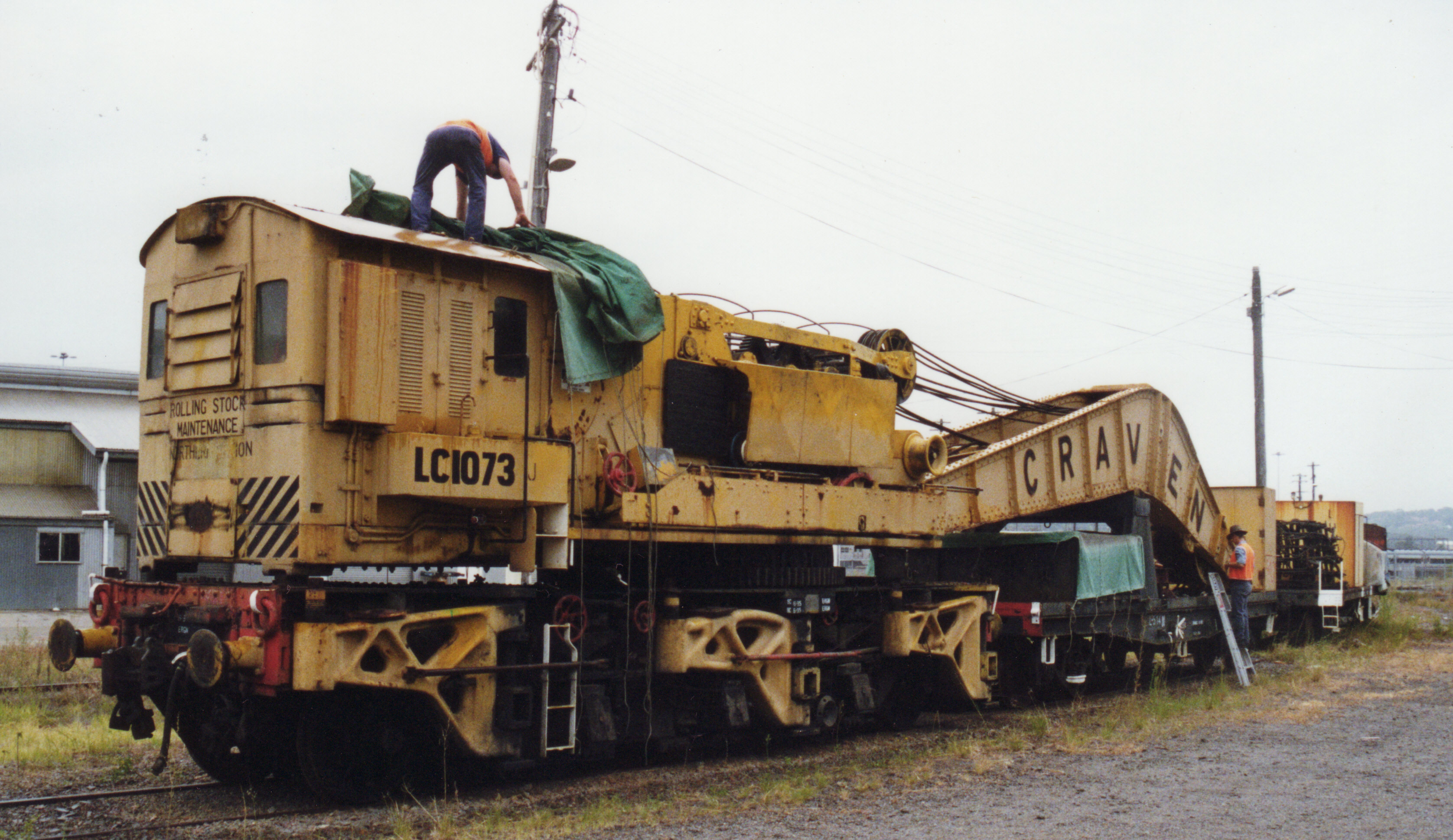 NSWGR Craven Brothers 70 Ton breakdown crane 1073 at Broadmeadow.